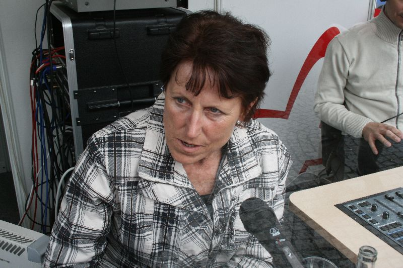 Jarmila Kratochvilova, czech runner